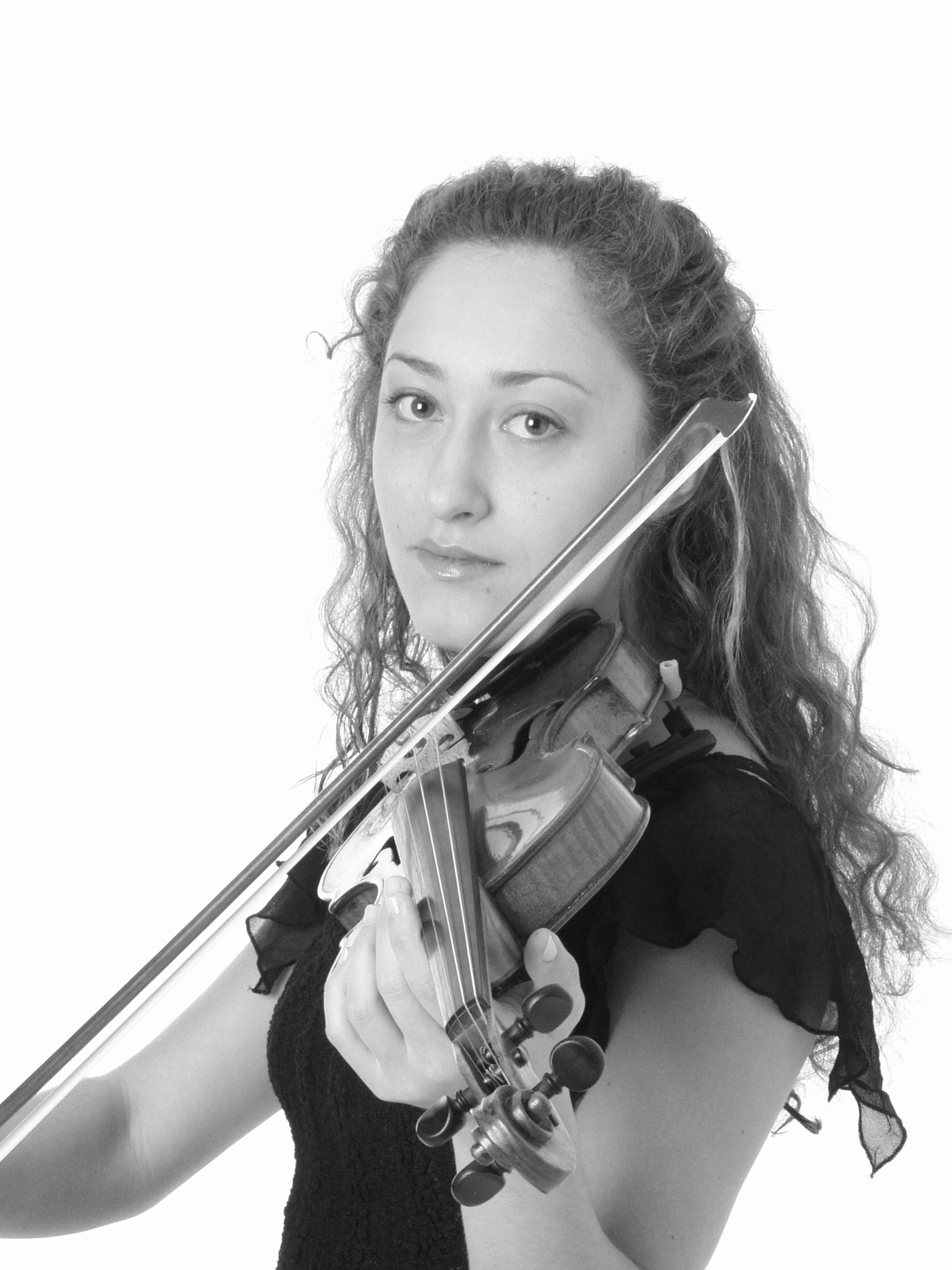 Private picture of Nika Movsum, Violinist.